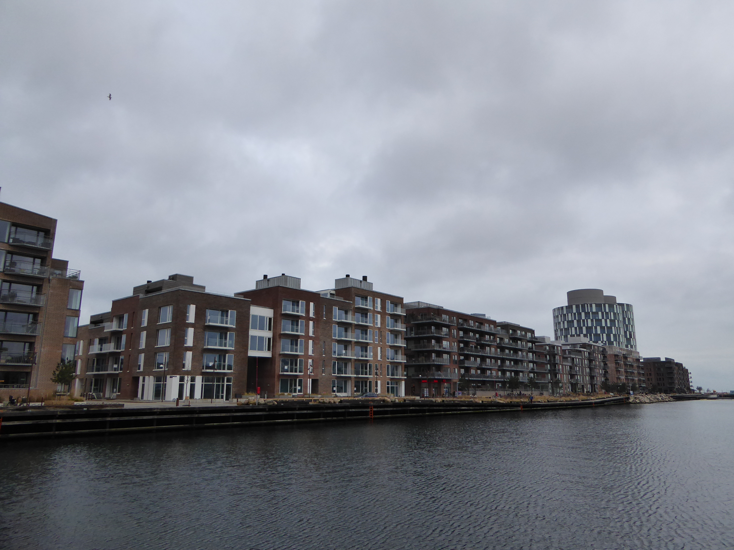 The street and old wharf Sandkaj at Nordbassinet in Nordhavn in Copenhagen.